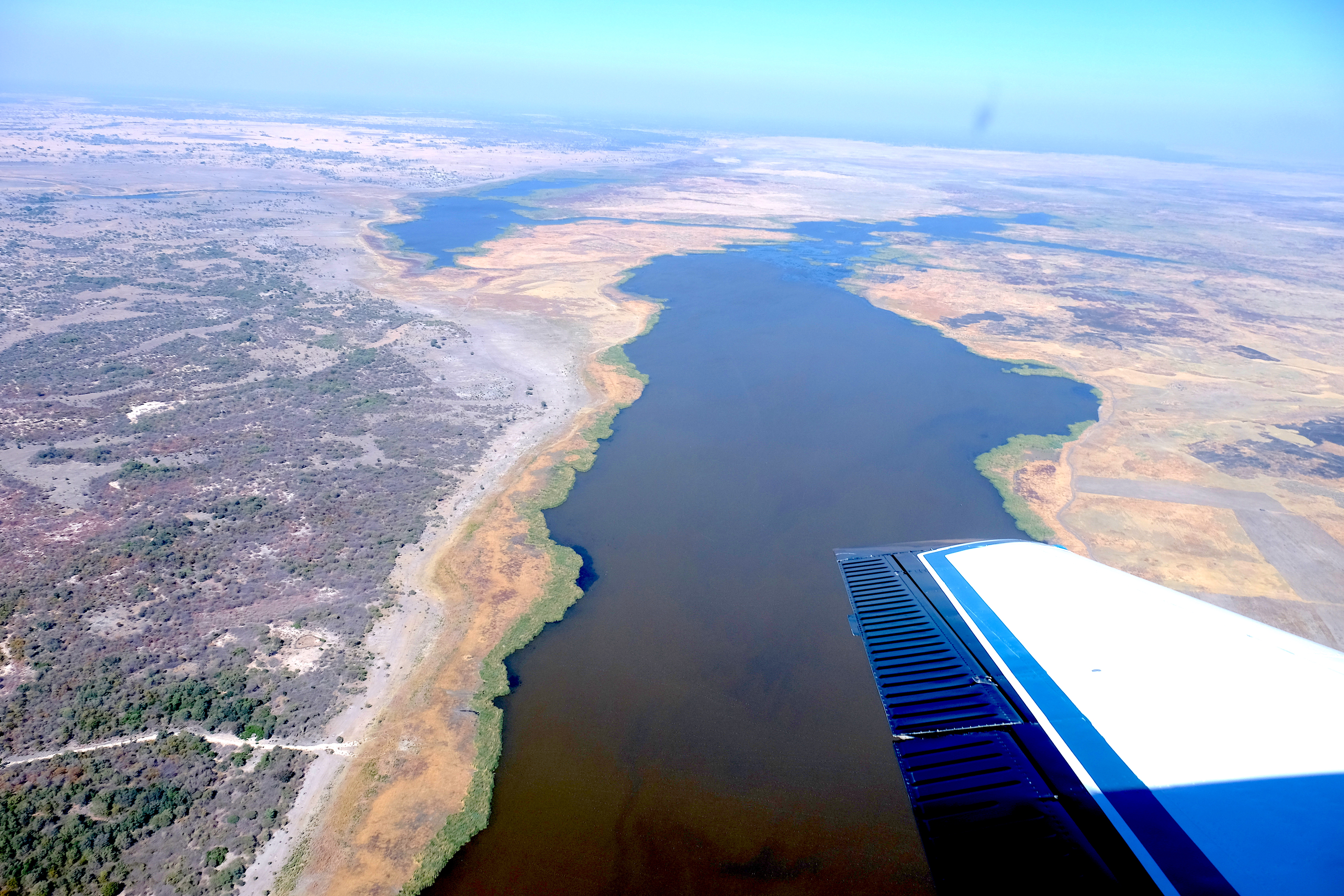 Lake Liambezi aerial view (2019)